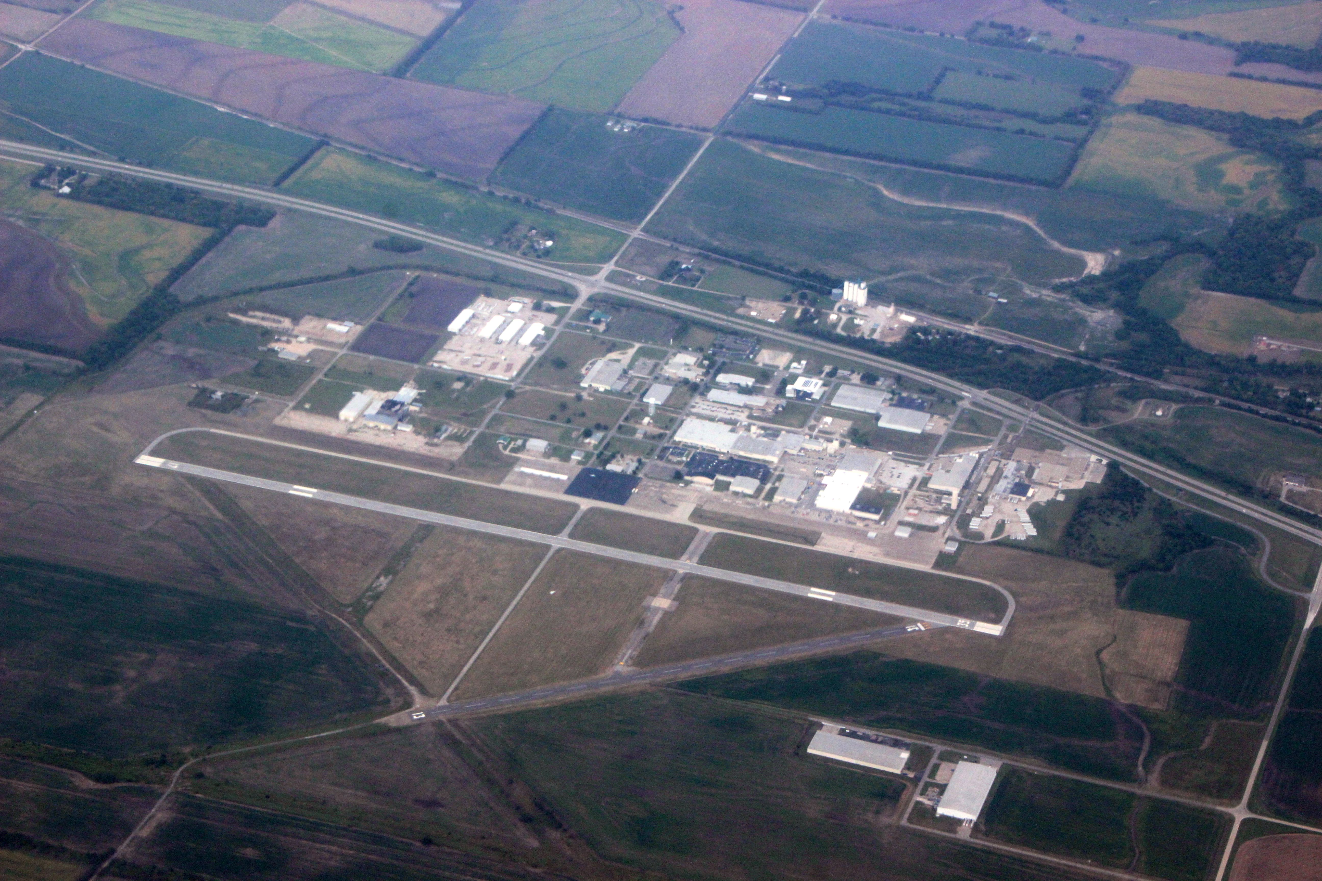 Aerial view of Strother Field, an airport in the US state of Kansas located south of Winfield and north of Arkansas City; looking in a northeasterly direction, taken from a passing airliner.